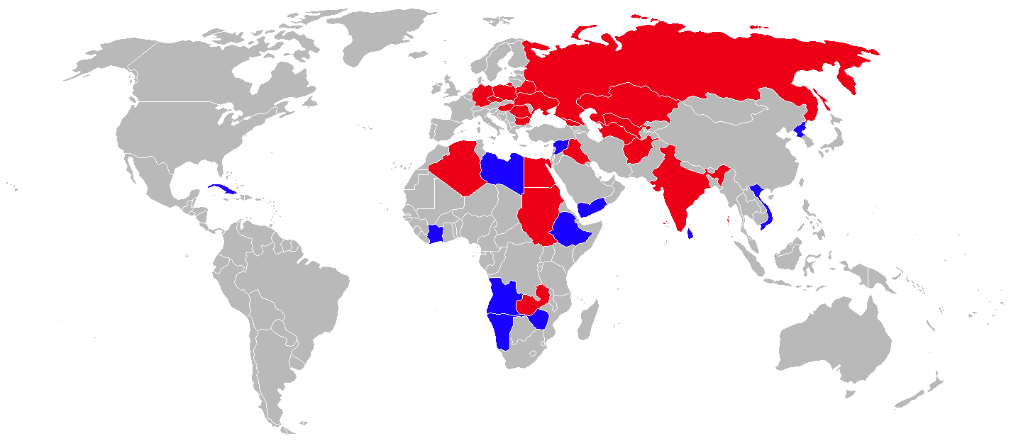 World map of Mikoyan-Gurevich MiG-23 operators